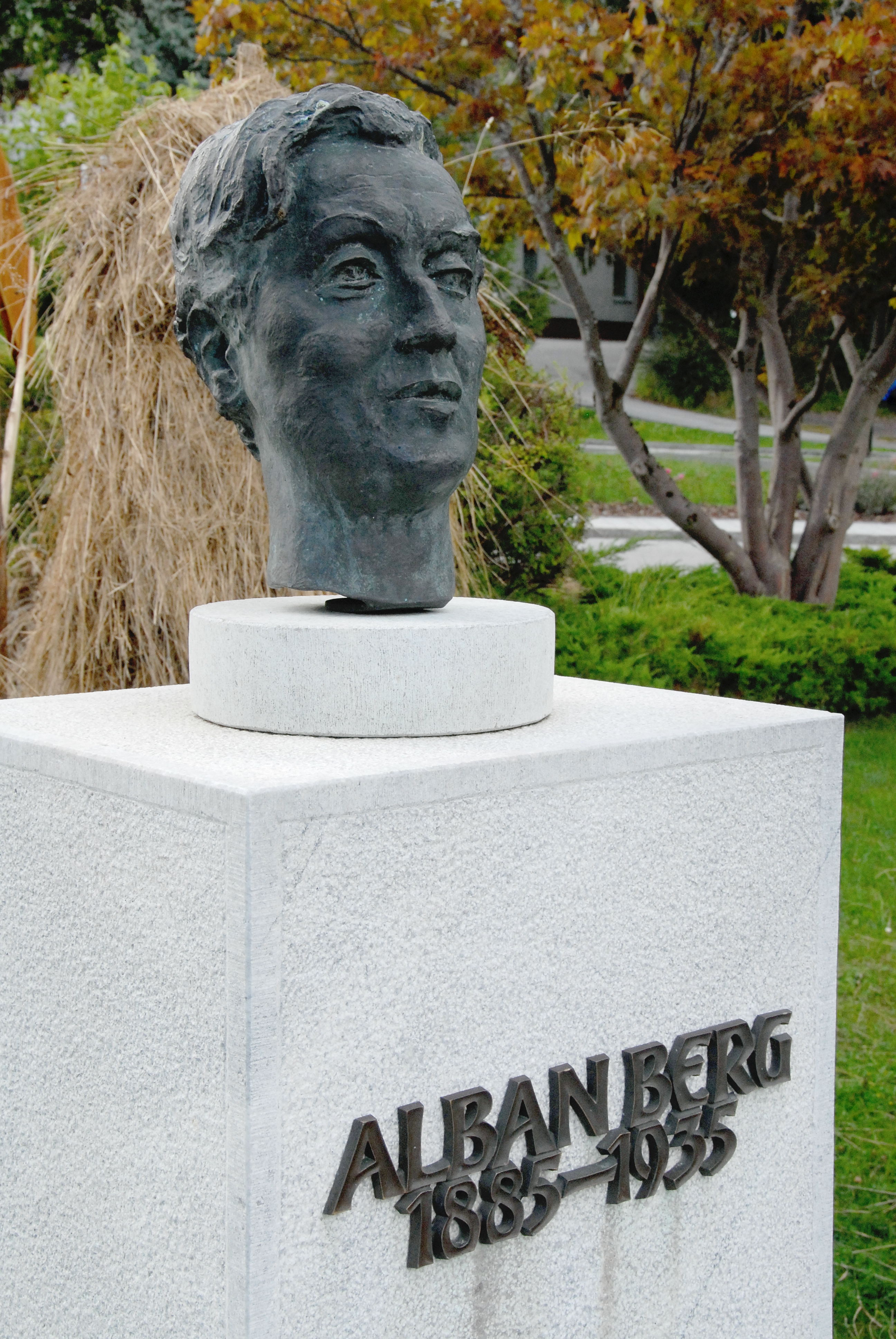 Bust of the composer Alban Berg at Schiefling on the lake, district Klagenfurt-Land, Carinthia, Austria